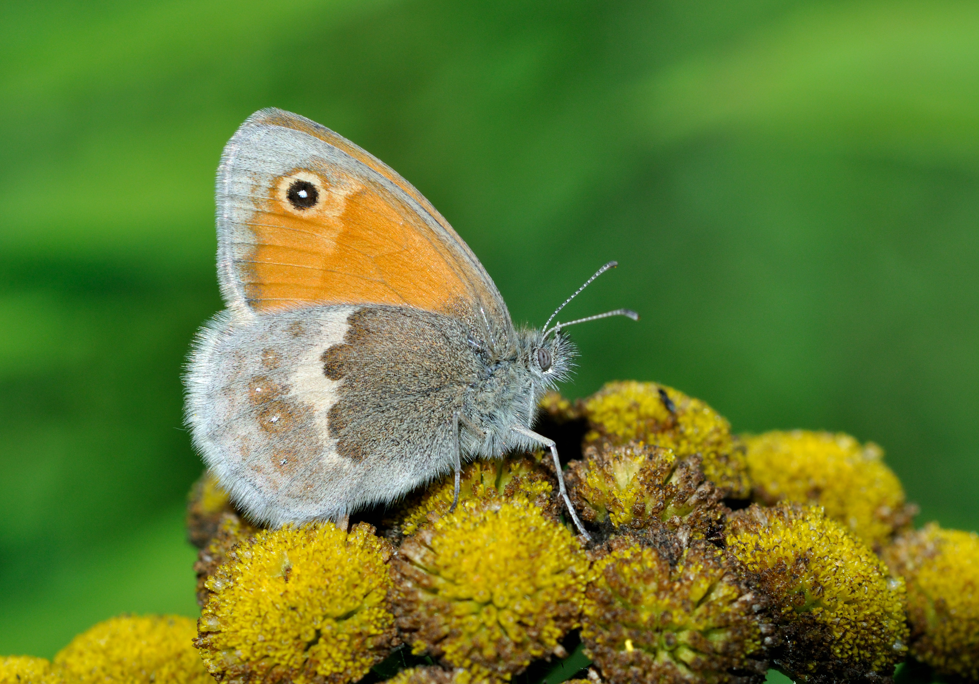 Alternative crop and coloring to File:Coenonympha_pamphilus_qtl1.jpg.